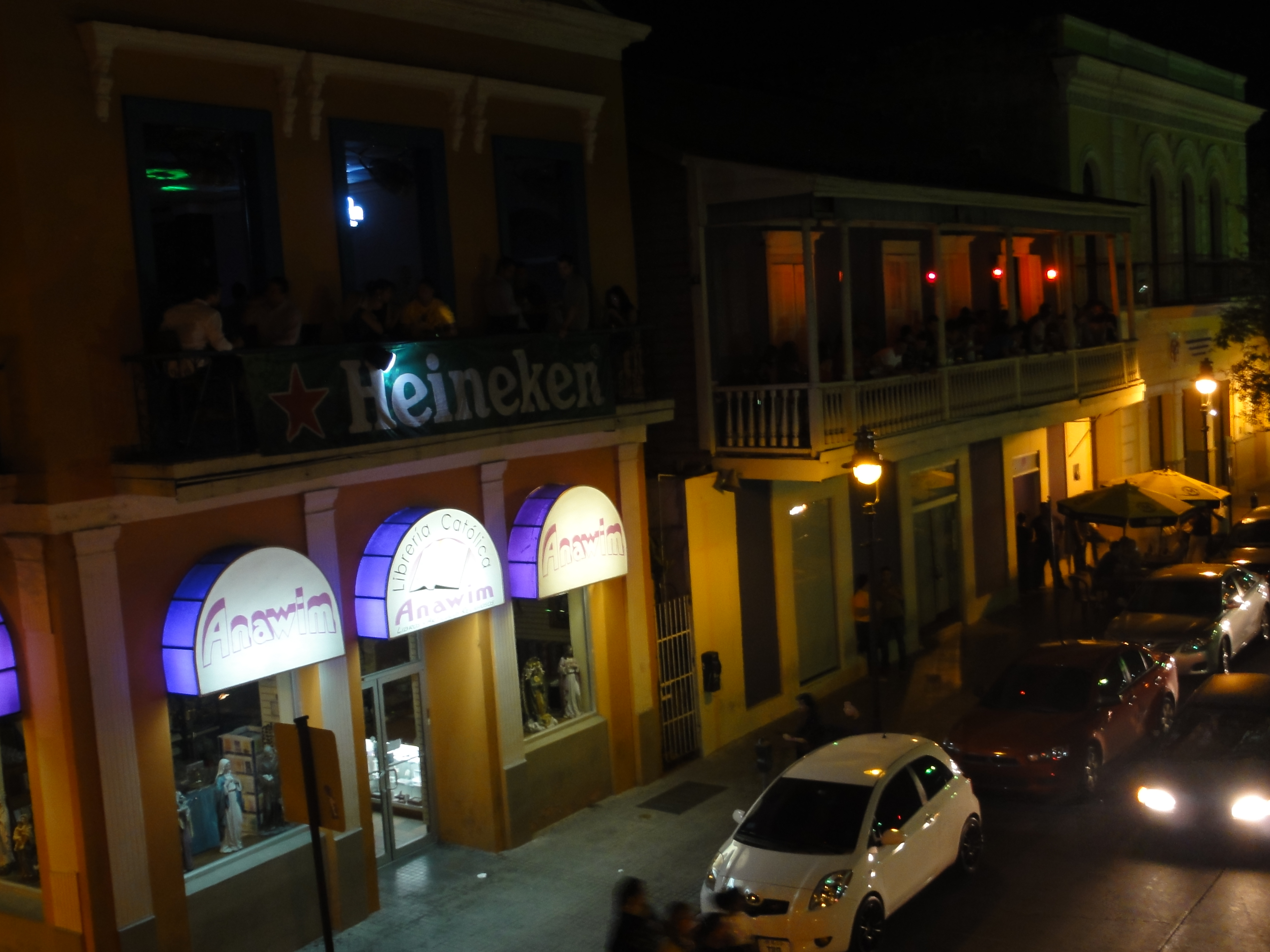 Dos barras repletas de gente en la Zona Histórica, C. Isabel, Plaza Muñoz Rivera, Bo. Segundo, Ponce, PR, mirando al noreste (DSC02650)